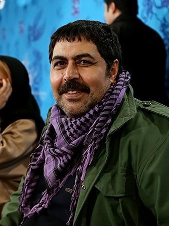 Farhad Aslani in Khaab Zade-Haa movie press conference at the 32 Fajr film festival.